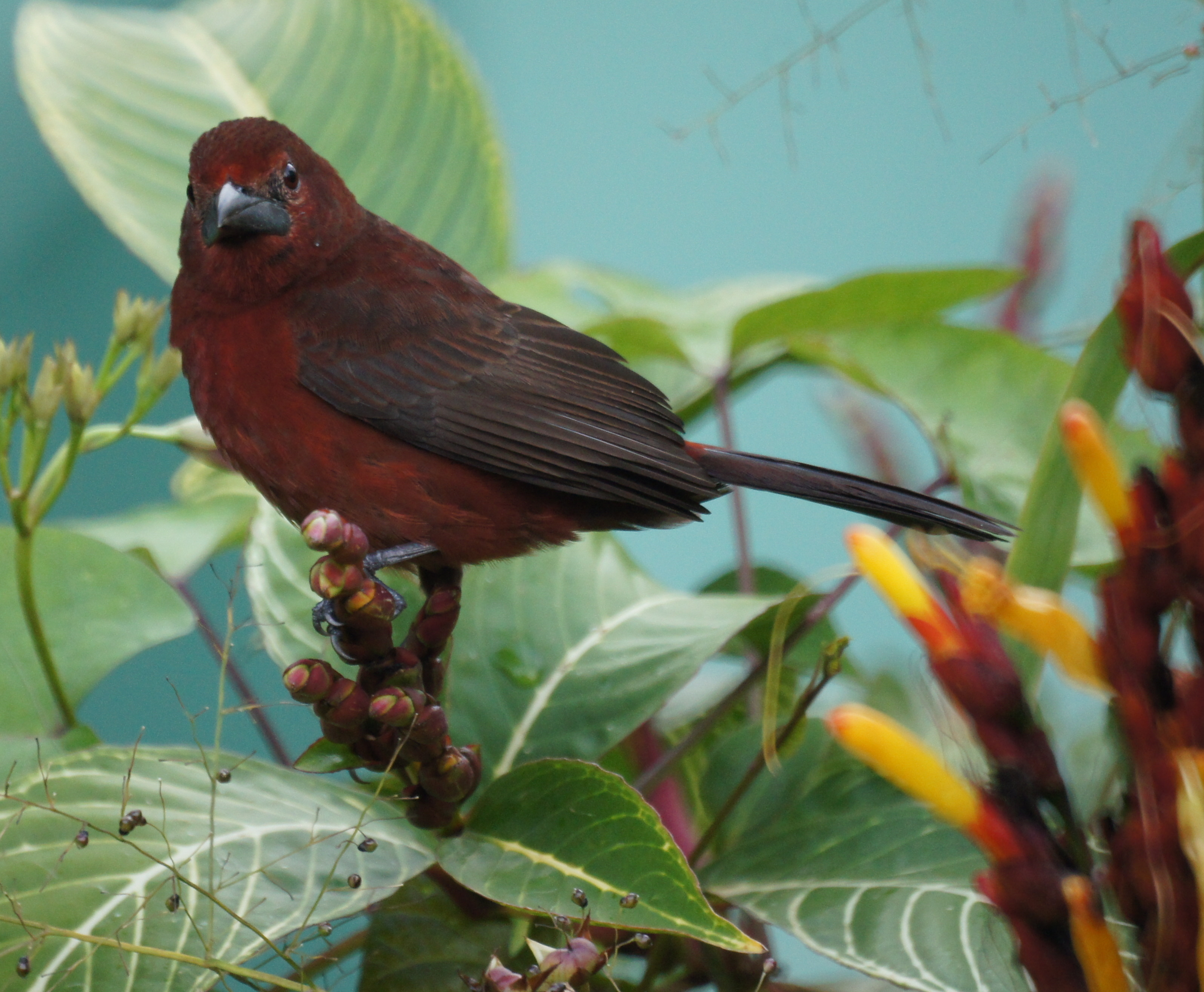 Ramphocelus carbo Female Silver-beaked Tanager